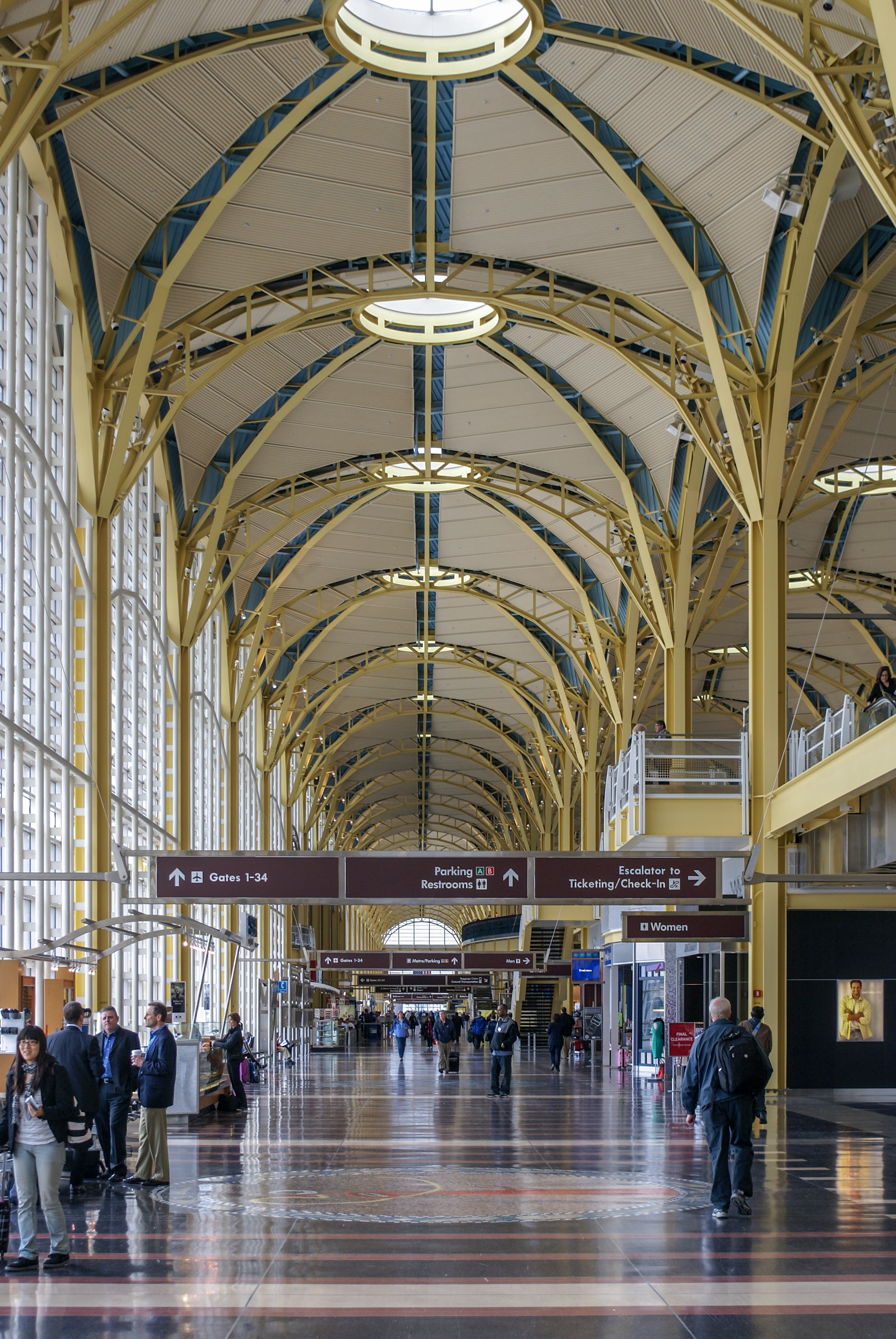 Ronald Reagan Washington National Airport, Terminal B/C